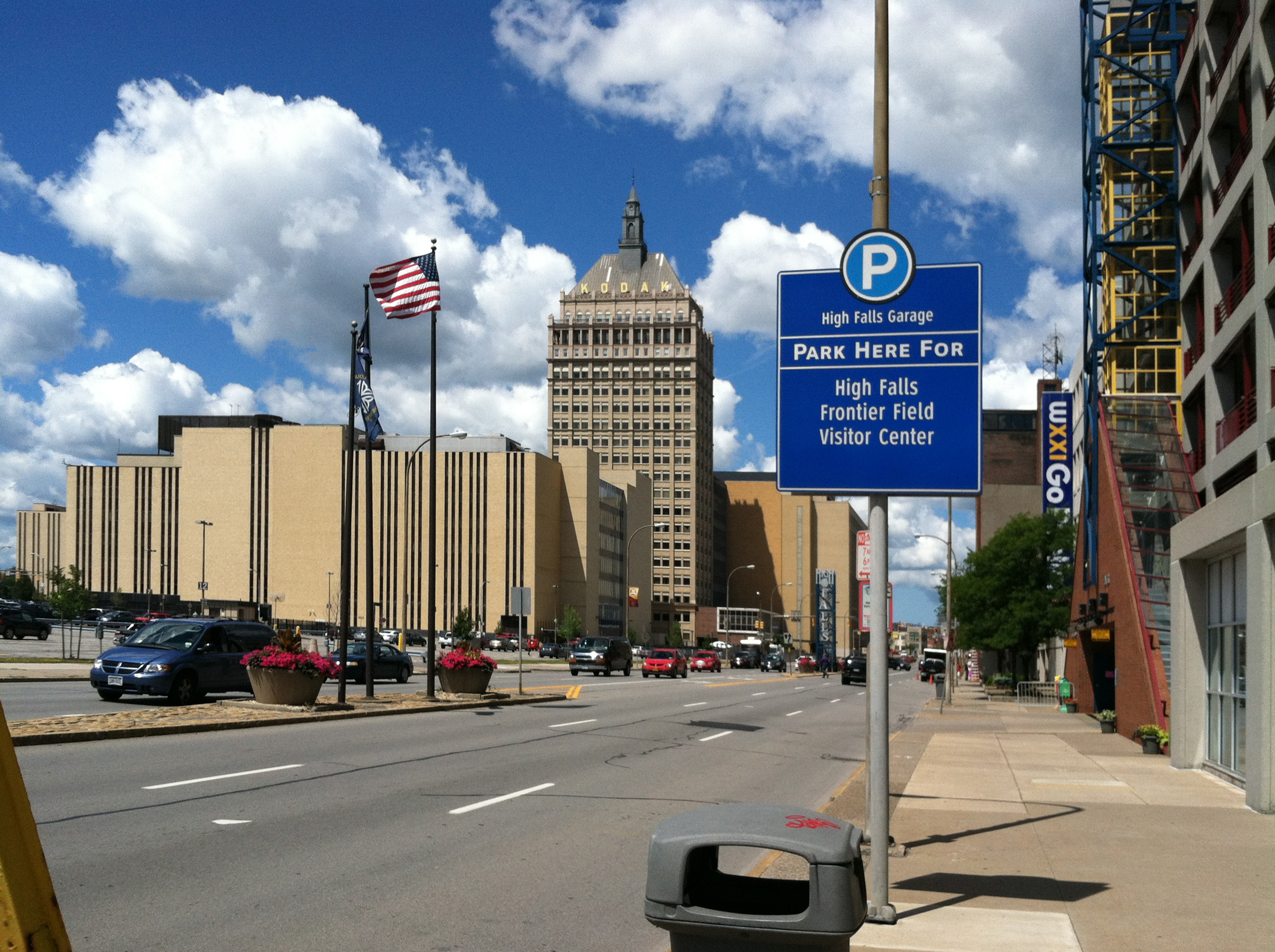 Kodak Headquarters Complex As Seen from Commercial Street